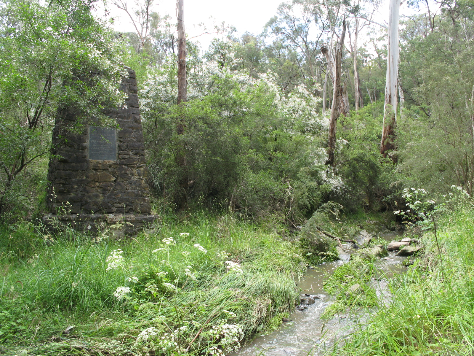 The cairn marking the site of the first recognised discovery of gold in Victoria, Australia in 1854, on the banks of Andersons Creek. Photo taken by myself in December 2008.